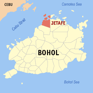 Map of Bohol showing the location of Jetafe